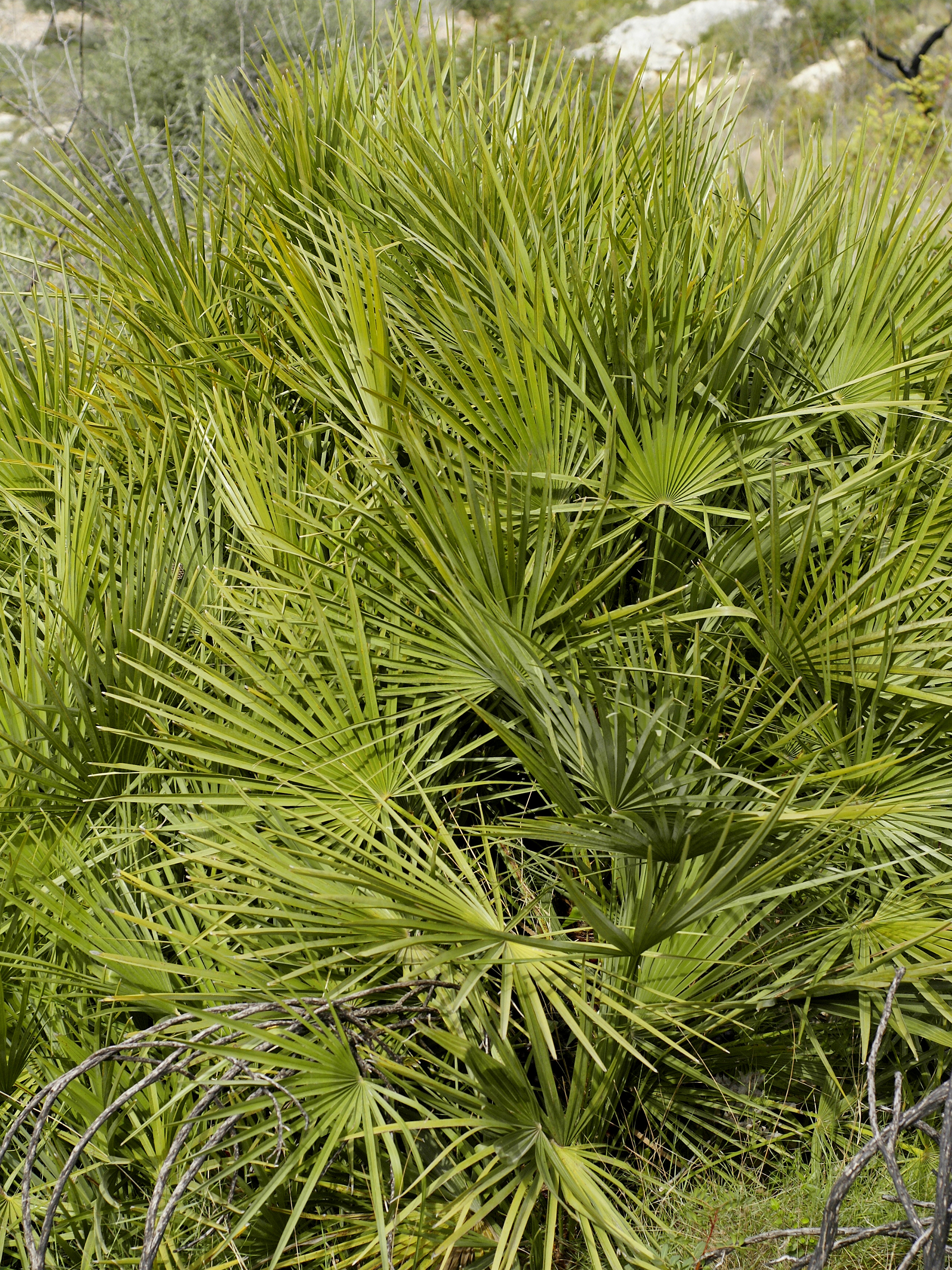 Plant near el Perelló, Catalonia, Spain